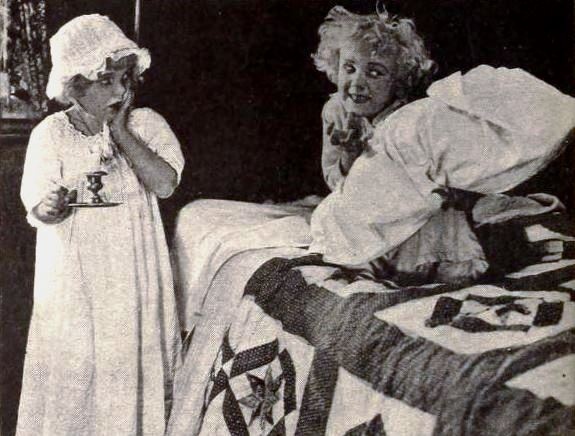 Still from the American film Treasure Island (1918) with Virginia Lee Corbin and Francis Carpenter, on page 26 of the January 12, 1918 Exhibitors Herald.